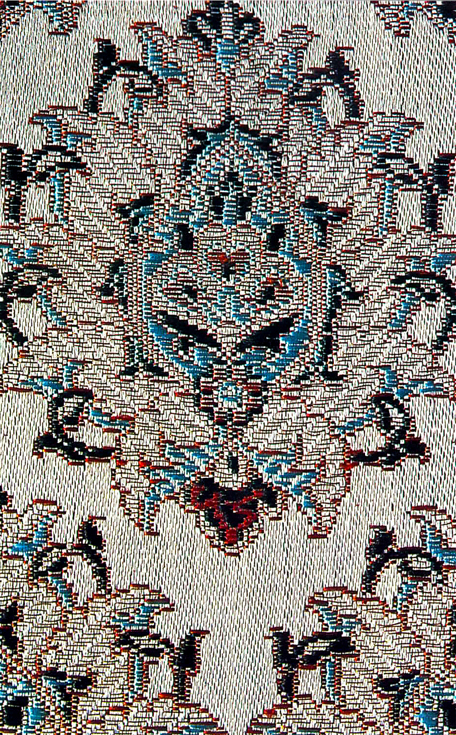 Persian Silk Brocade. Persian Textile (The Golden Yarns of Zari - Brocade). Silk Brocade with Silver Thread (Golabetoon). Texture Type: Lower Warp (Brocade Atlasi). Draw Loom. Pattern and Design: Large Flower, Cypress (Gol Dorosht-e Sarvi), With Main Repeating Motif. Brocade weaver: Master Seifollah Monajati Kashani. 1971 A.D. Brocade Designer (Pattern Designer): Master Mohammad Tarighi. 1968 A.D. Pahlavi Dynasty. the Ministry of Culture and Art . Honarhaye Ziba workshop.